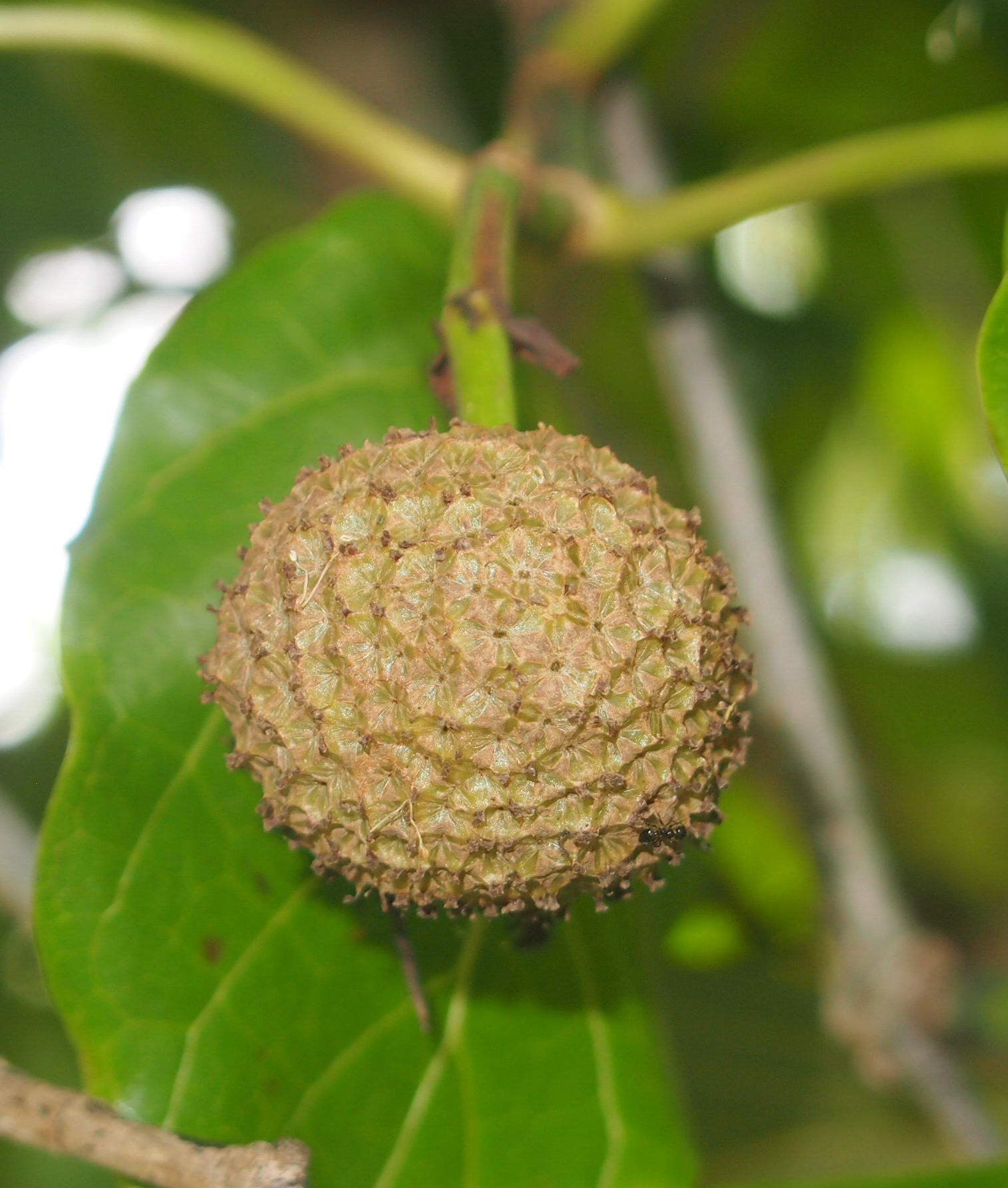 Nauclea orientalis fruit